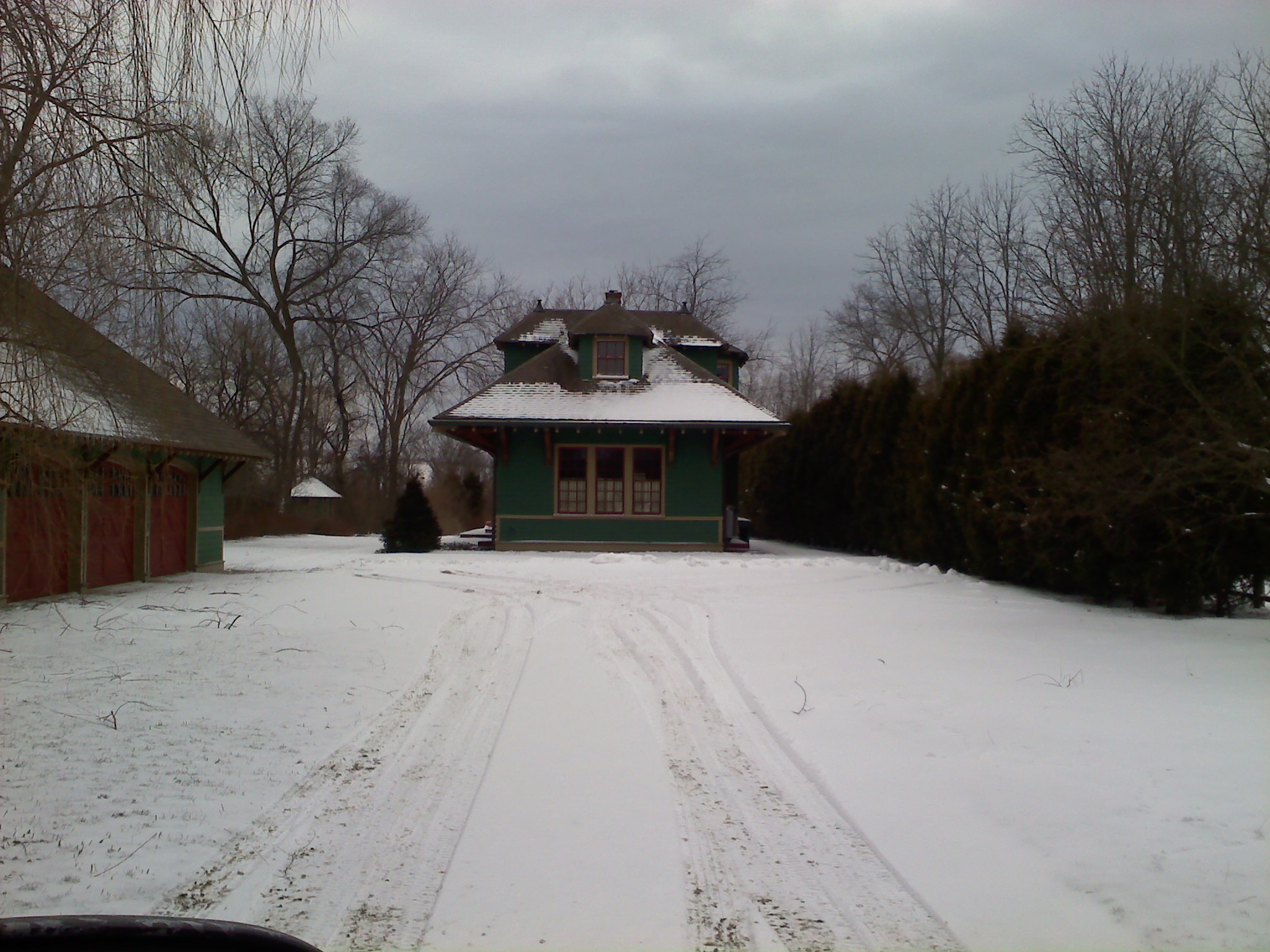 The former site of Sharon Station in Amenia, New York